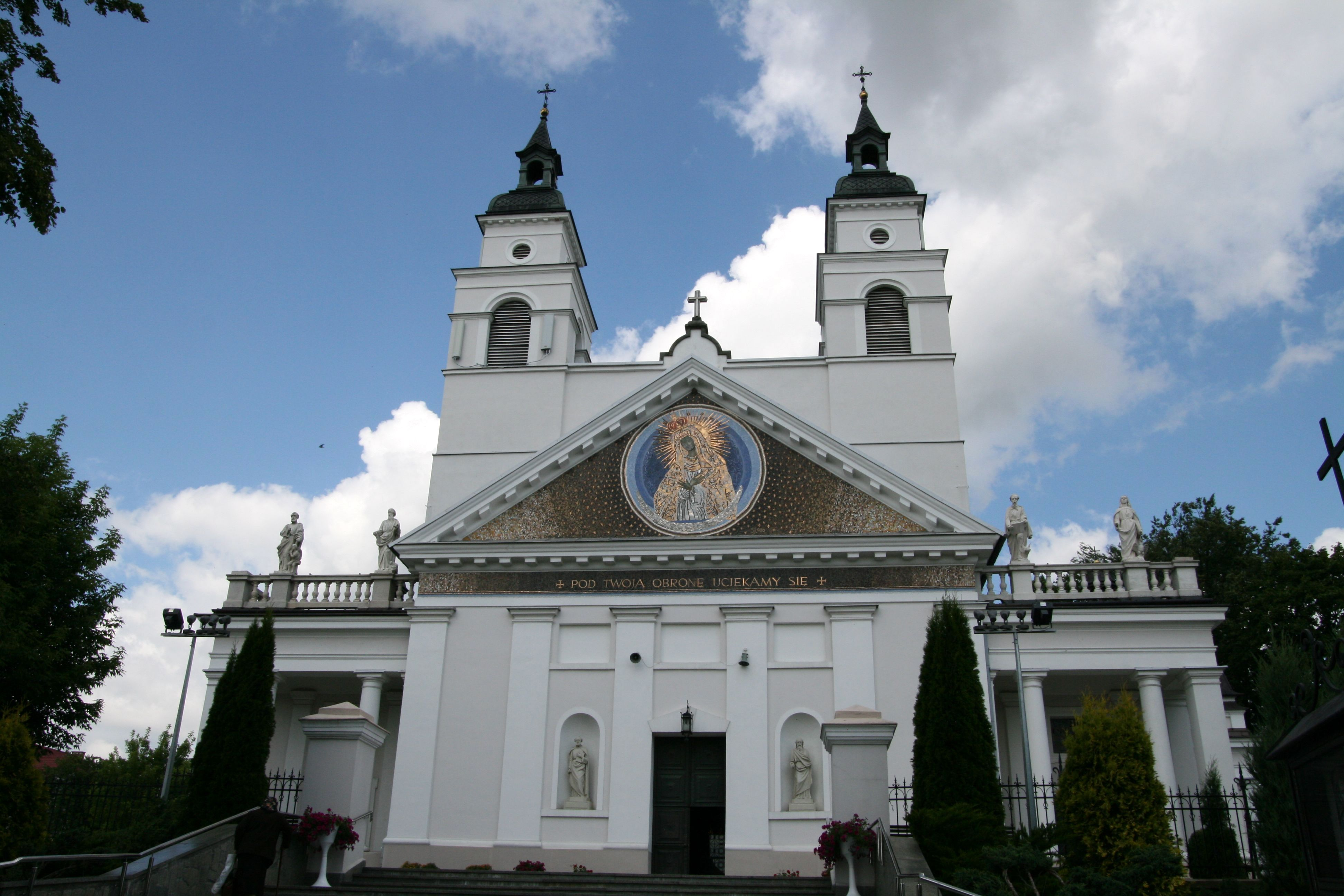 St Antoni Church in Sokółka